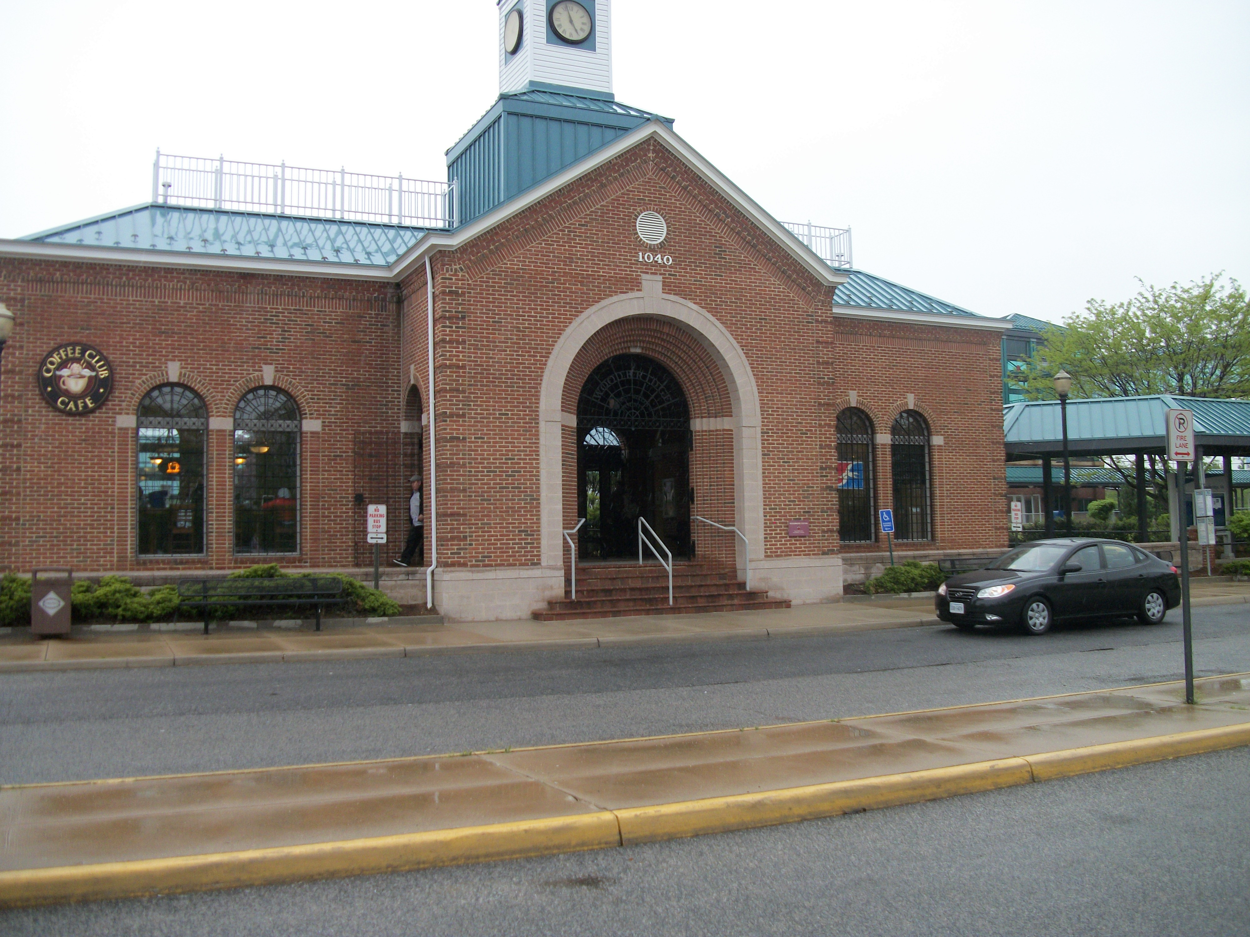 The station house of Woodbridge (VRE station) which also serves Amtrak trains in Woodbridge, Virginia. The station contains the coffee club cafe, a clock tower, a parking garage(which will get a picture of it's own), and a high pedestrian bridge over the tracks, among other features.